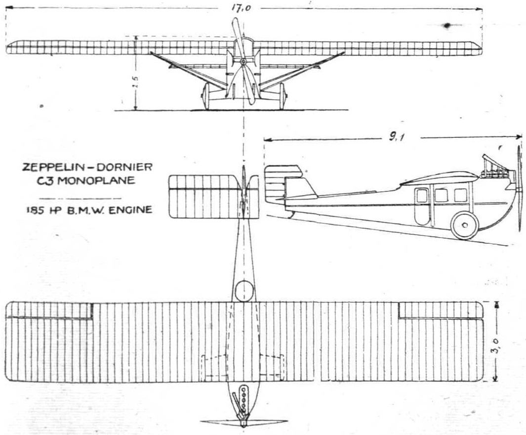 Three-view drawing of Dornier Do C III Komet I.